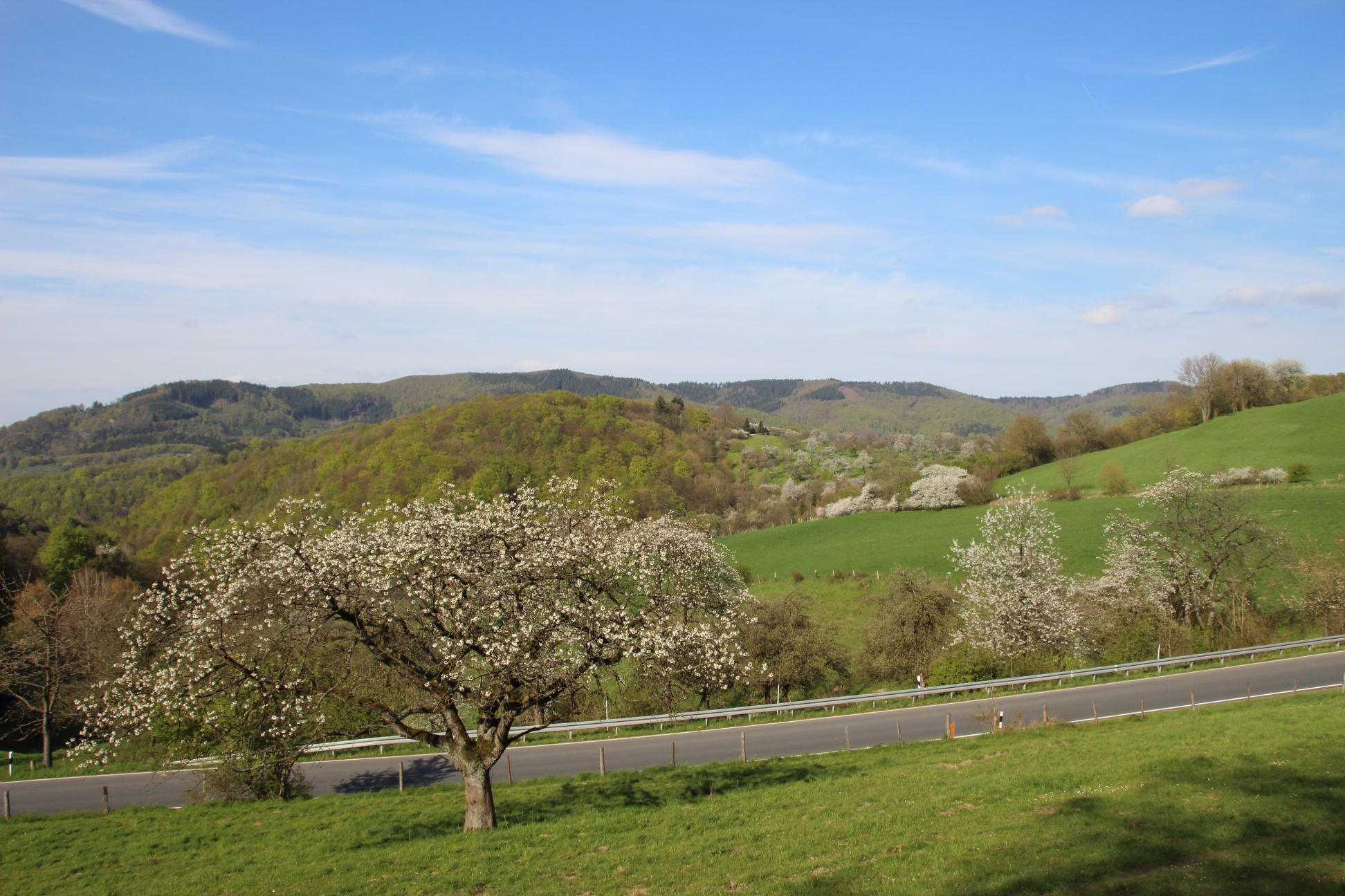 "Rühler Schweiz", between villages Rühle and Golmbach